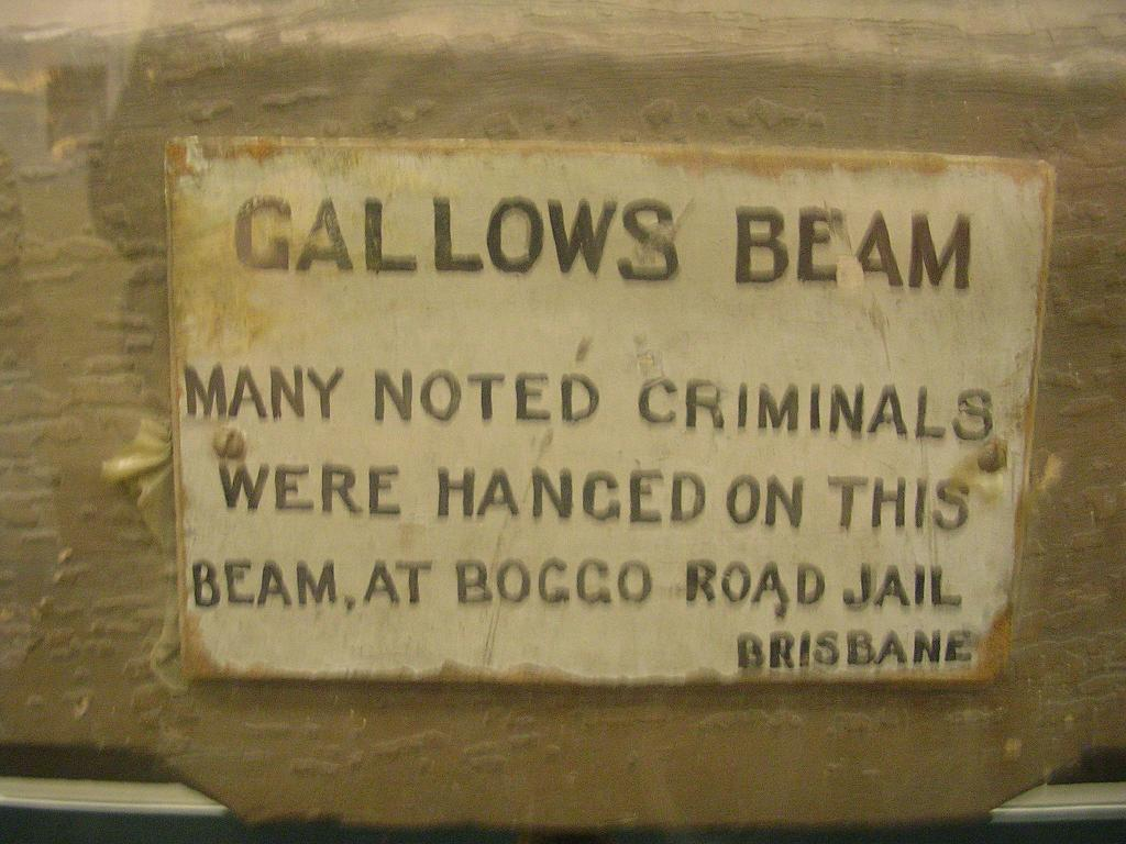 Plaque on Boggo Road Gaol, Brisbane gallows beam. Photo by R. McKay